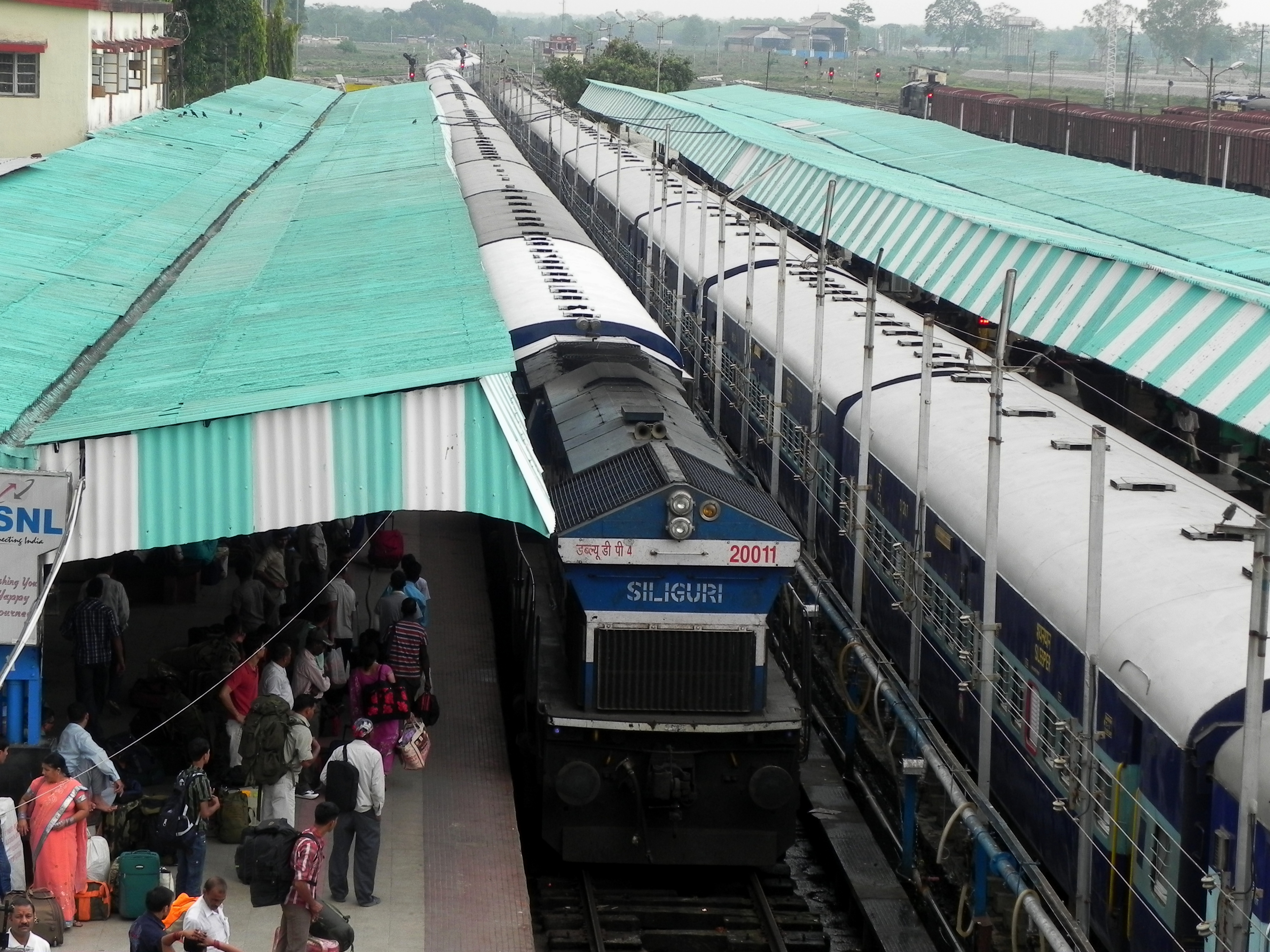 Mahananda Express at New Jalpaiguri (NJP), West Bengal with WDP4 locomotive (20011)